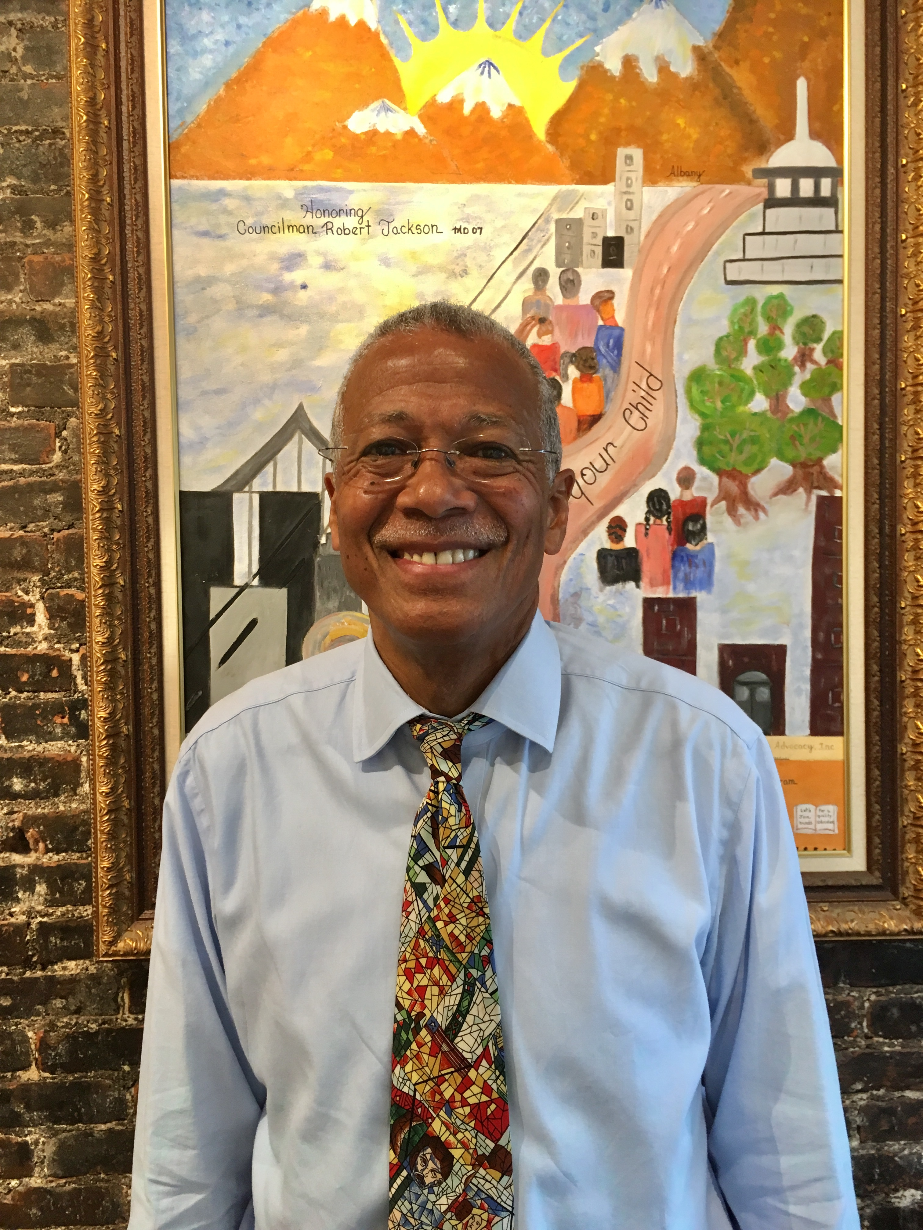 Photo of Robert Jackson, former New York City councilman and candidate for State Senate